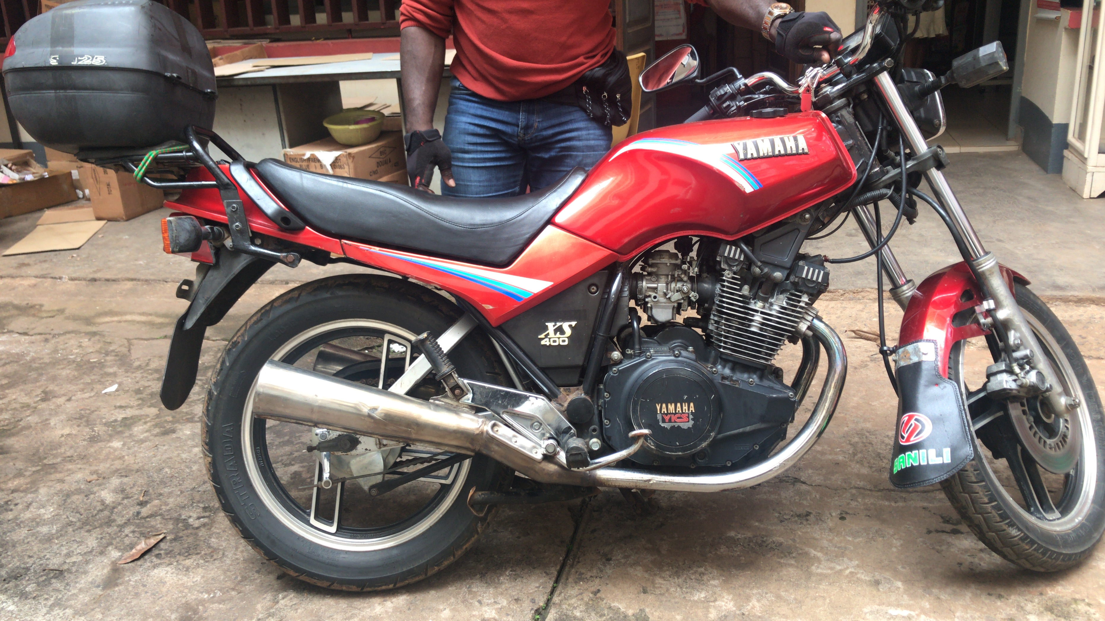 Moto de marque Yamaha garée à domicile